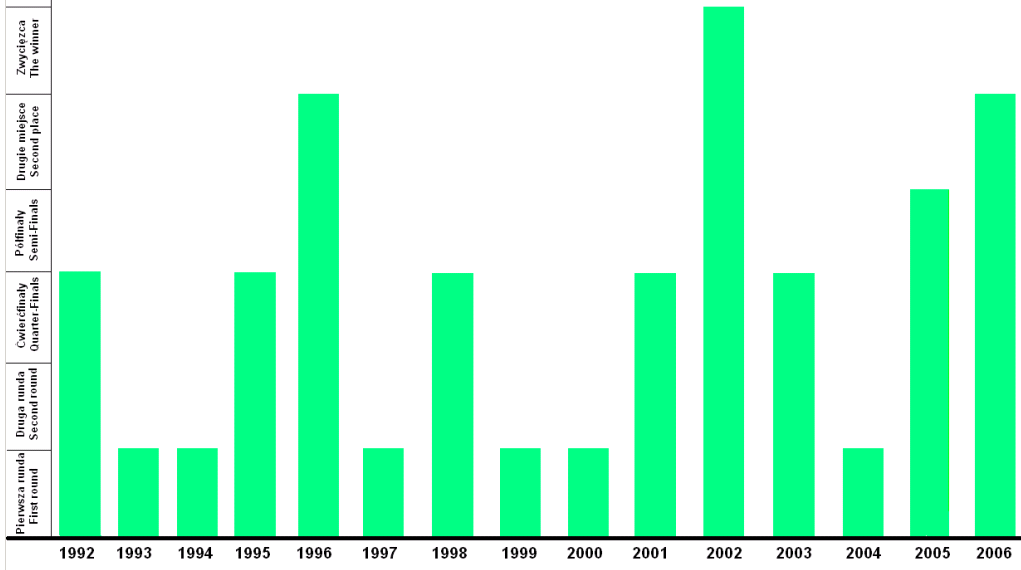 Peter Ebdon on World Championships. Own work.